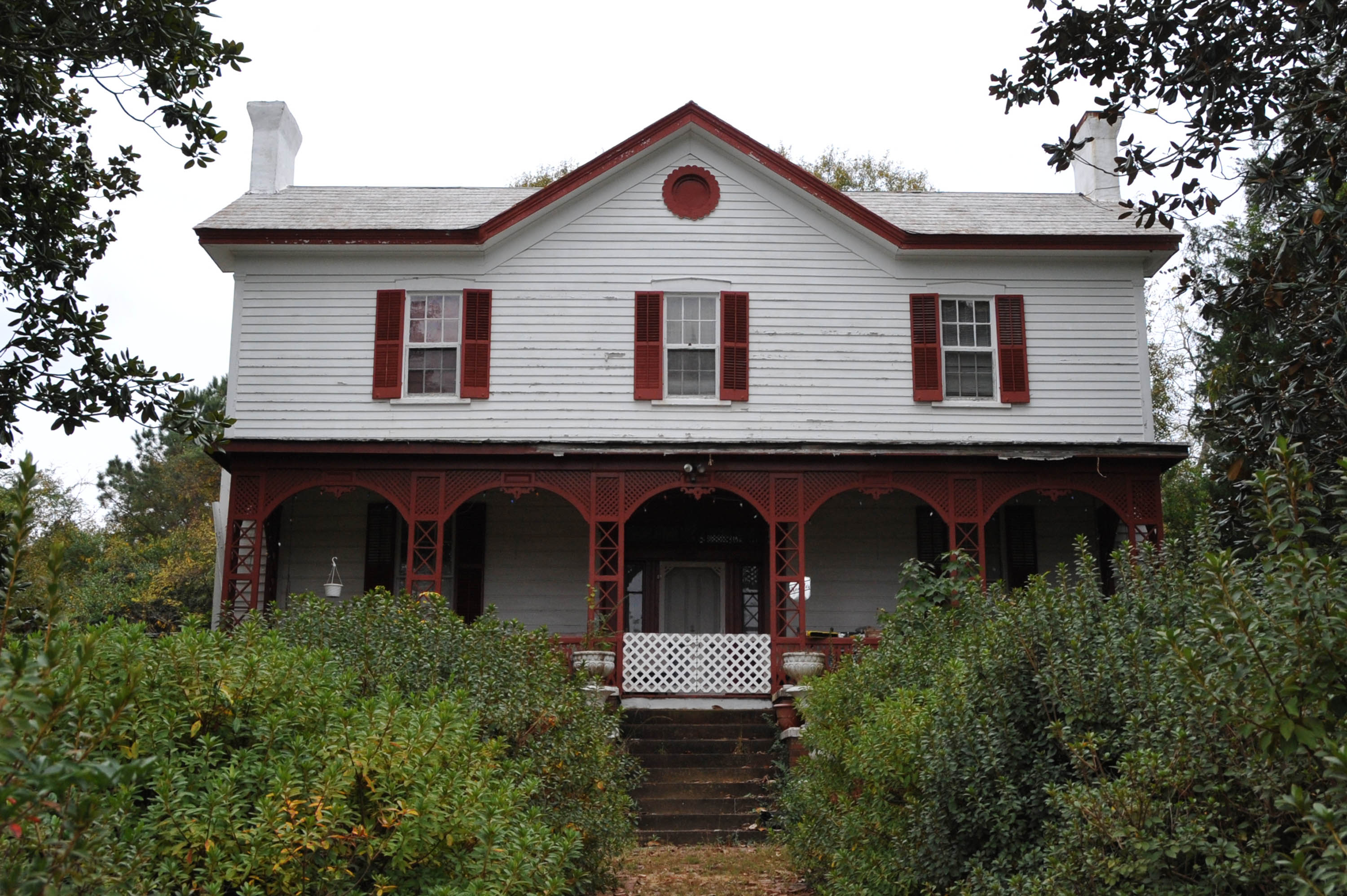 CIRCA 1868; AKA MAGNOLIA MANOR; GREENVILLE’S BEST MID-CENTURY VERNACULAR ITALIANATE HOUSE